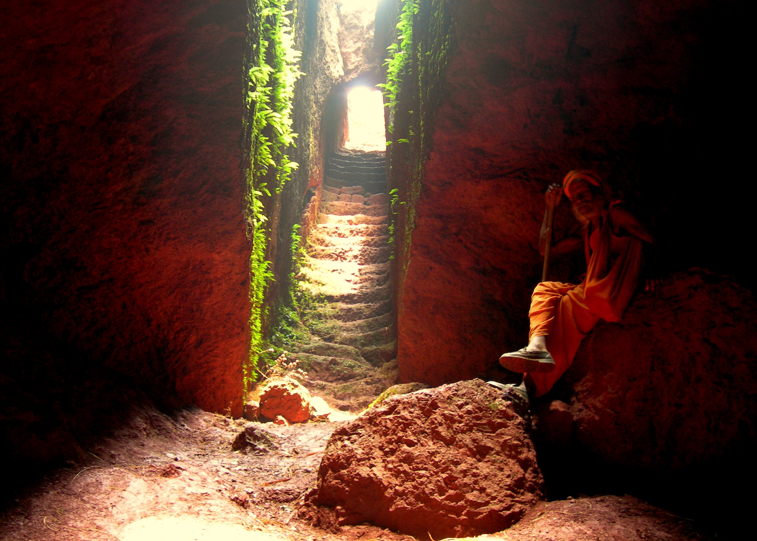 Place - Fort Kamalgad, Maharashtra, India This place is a well situated on top of a fort called Kamal Gad near Wai-Mahabalshwar, Mah, India. This gentleman happens to live on the fort and was very kind to show us around. I didn't ask him to pose for the picture neither did i played with the lighting or something. Just happened to be there at the right time :) Photoshop free.